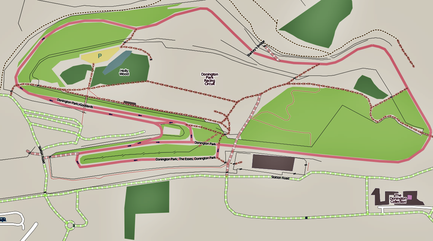 This map may be incomplete, and may contain errors. Don't rely solely on it for navigation.